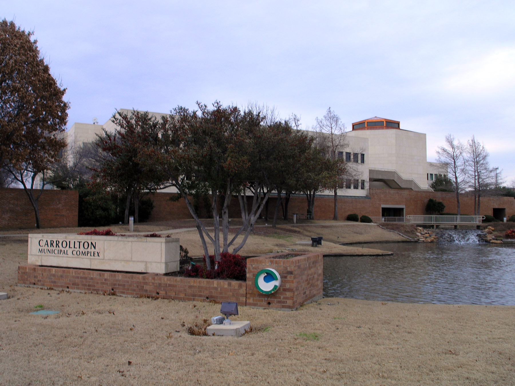 The Municipal Complex (municipal seat of government) for Carrollton, Texas (USA).